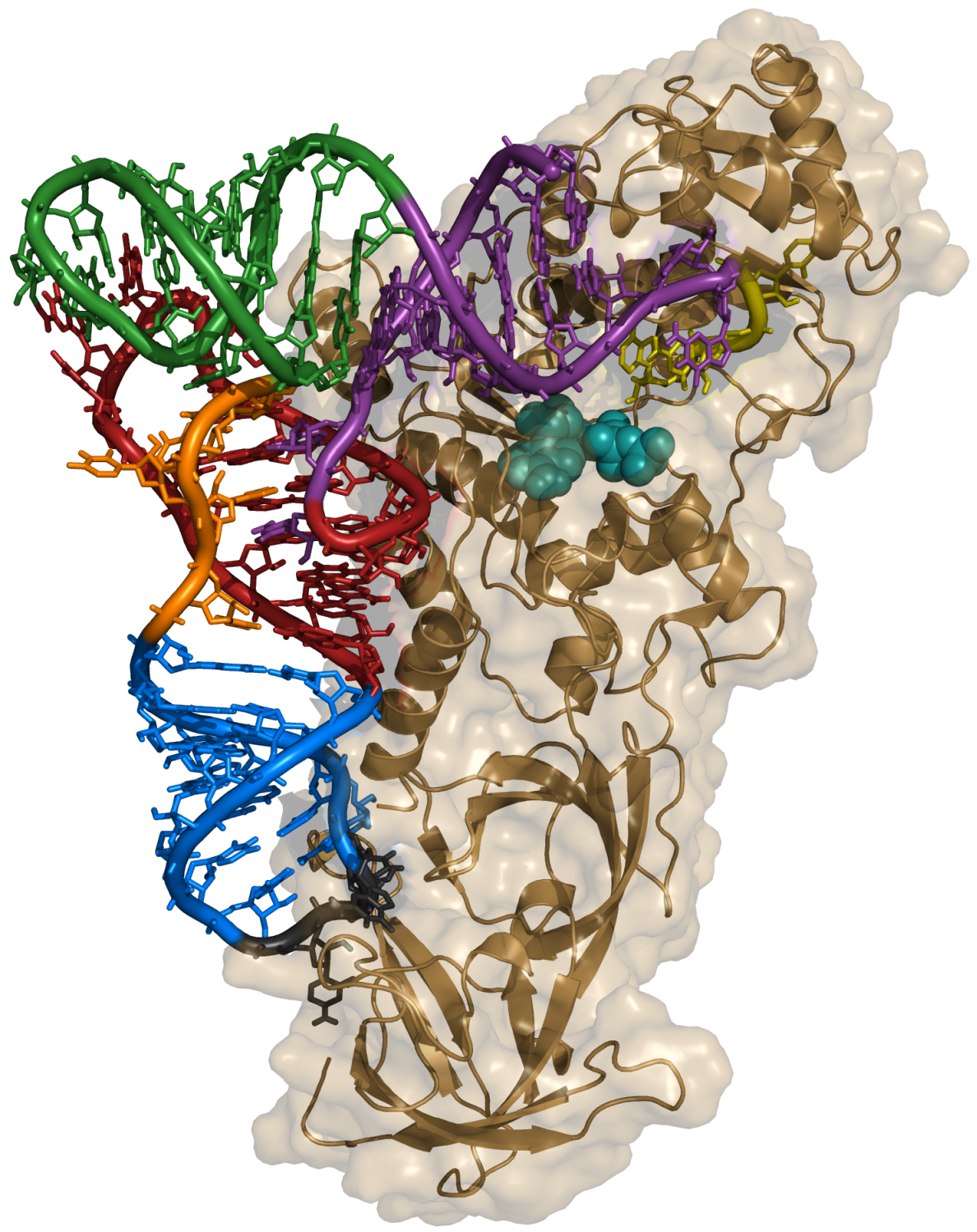 Glutaminyl-tRNA synthetase with bound tRNAGln, taken from PDB 1qrs and rednered with PyMOL